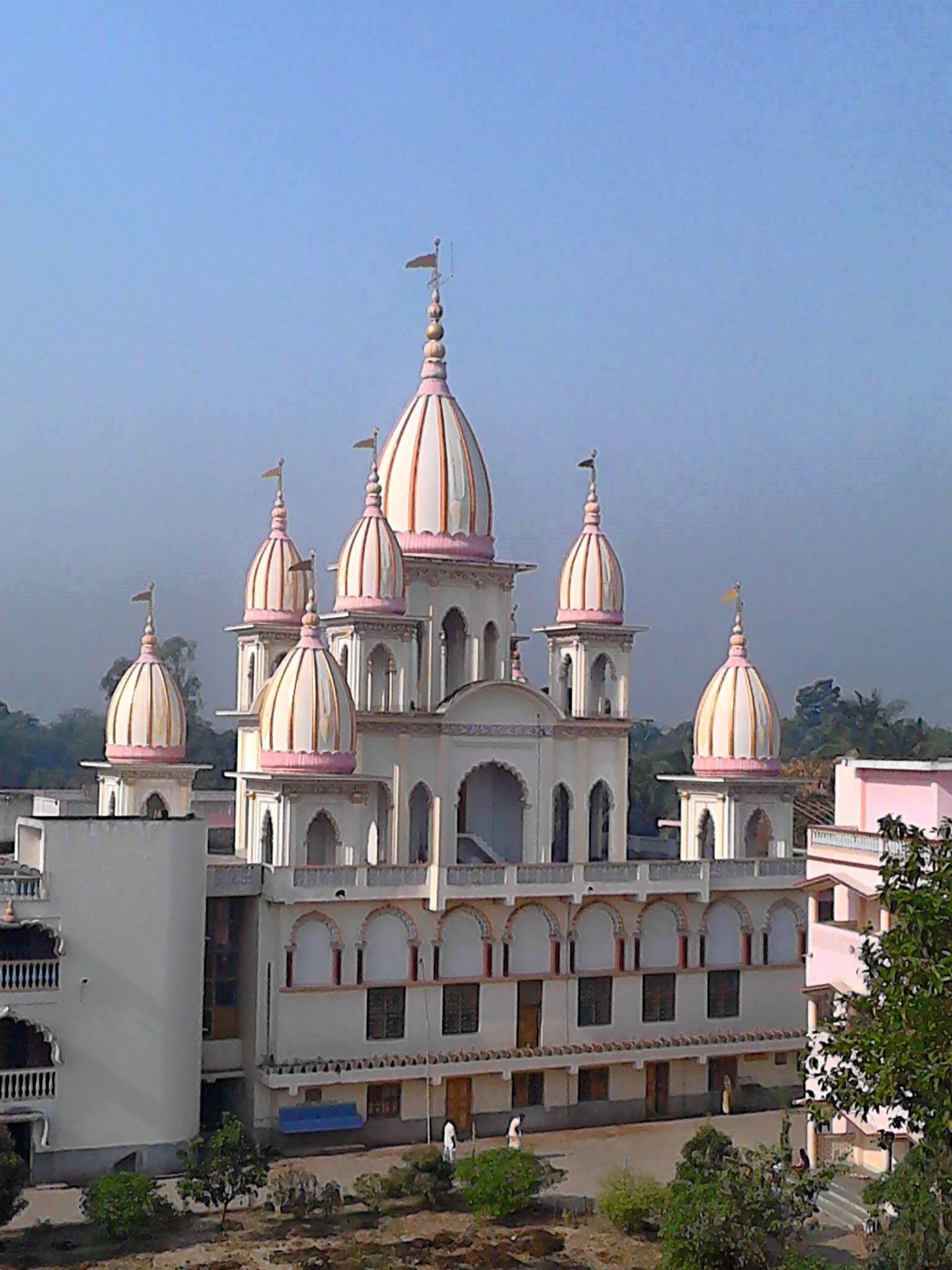 One of the main temples of International Pure Bhakti Yoga Society